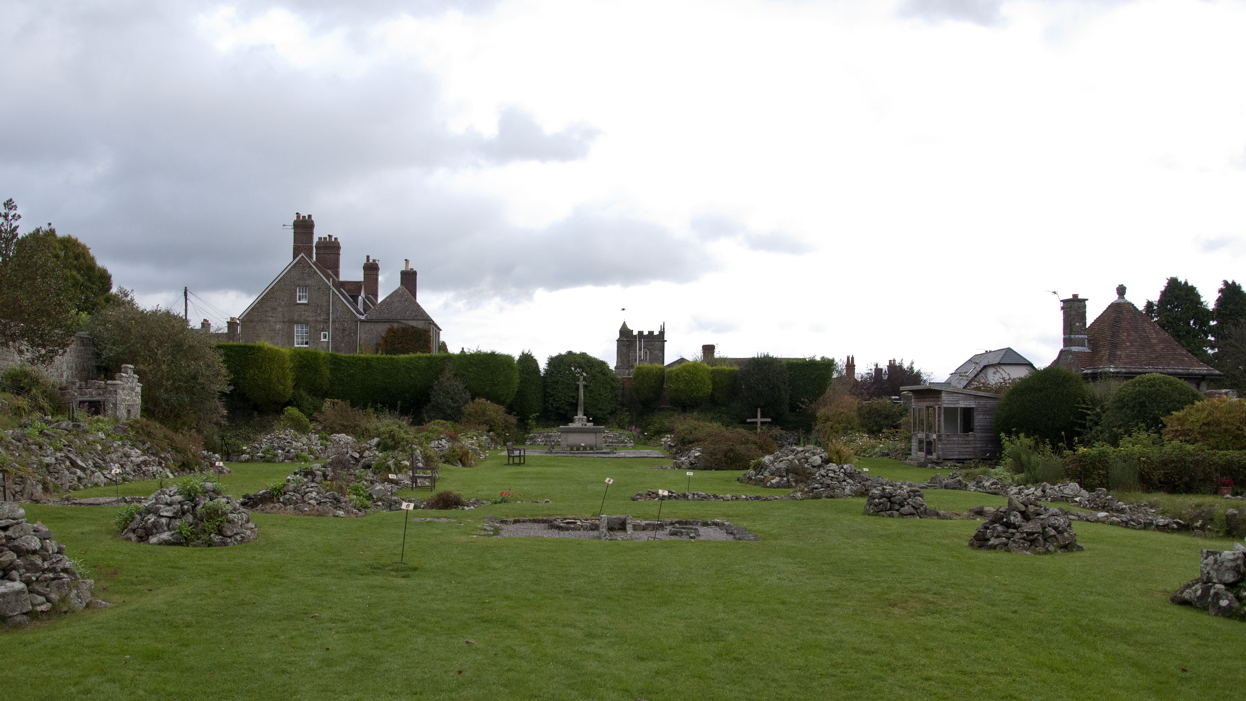 Shaftesbury Abbey, Shaftesbury, England